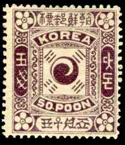 50 poon (fun; bun; 분/分) postage stamp from the Kingdom of Joseon (Korea)